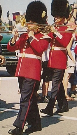 The Ceremonial Guard in front of the Canadian Parliament in Ottawa, Ontario (Canada).